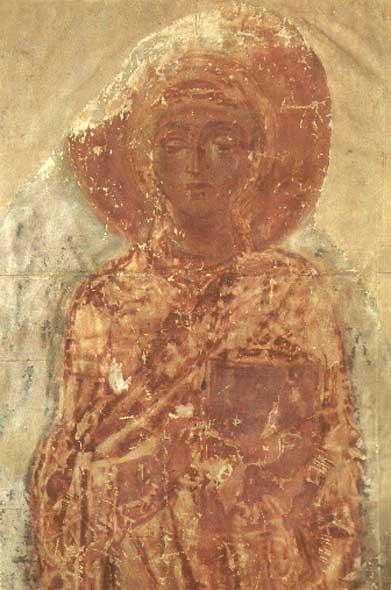 Saint Thecla (russian fresco in Saviour Cathedral of Chernihiv)